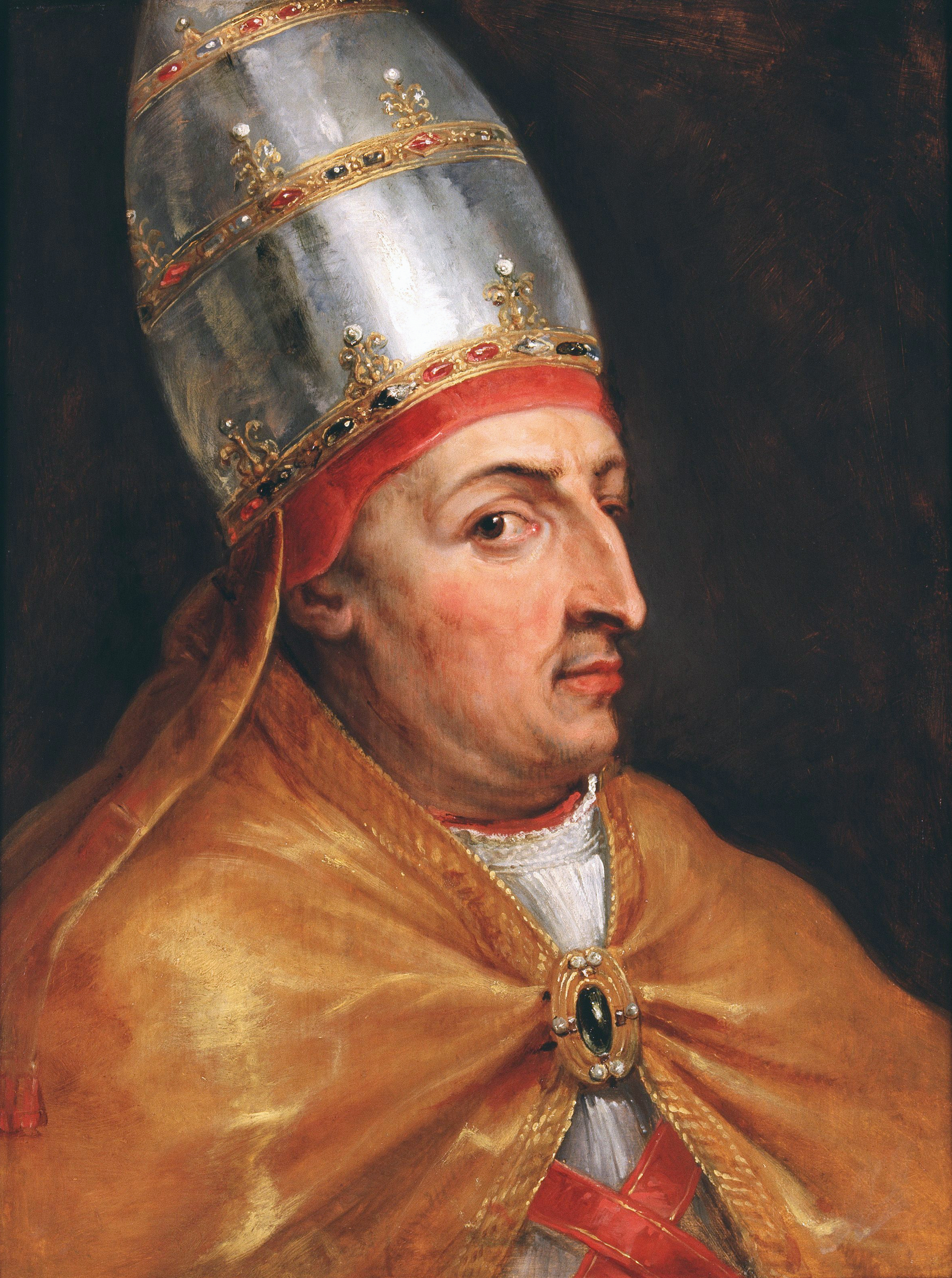 Pope Nicholas V, who reigned from 6 March 1447 until his death in 1455. Born Tommaso Parentucelli, Nicholas was made a cardinal for his diplomatic efforts by Pope Eugene IV. He was a patron of the humanist movement and promoted the enslavement of African "infidels". oil on panel 1612-1616